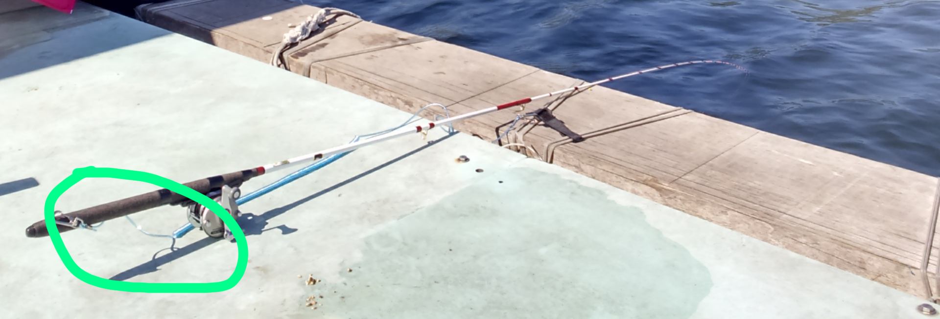 筏竿的失手繩